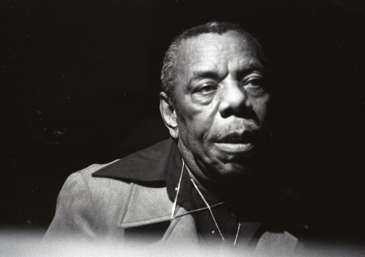 Jack performing on piano at the Dennis Swing Club, Hamburg